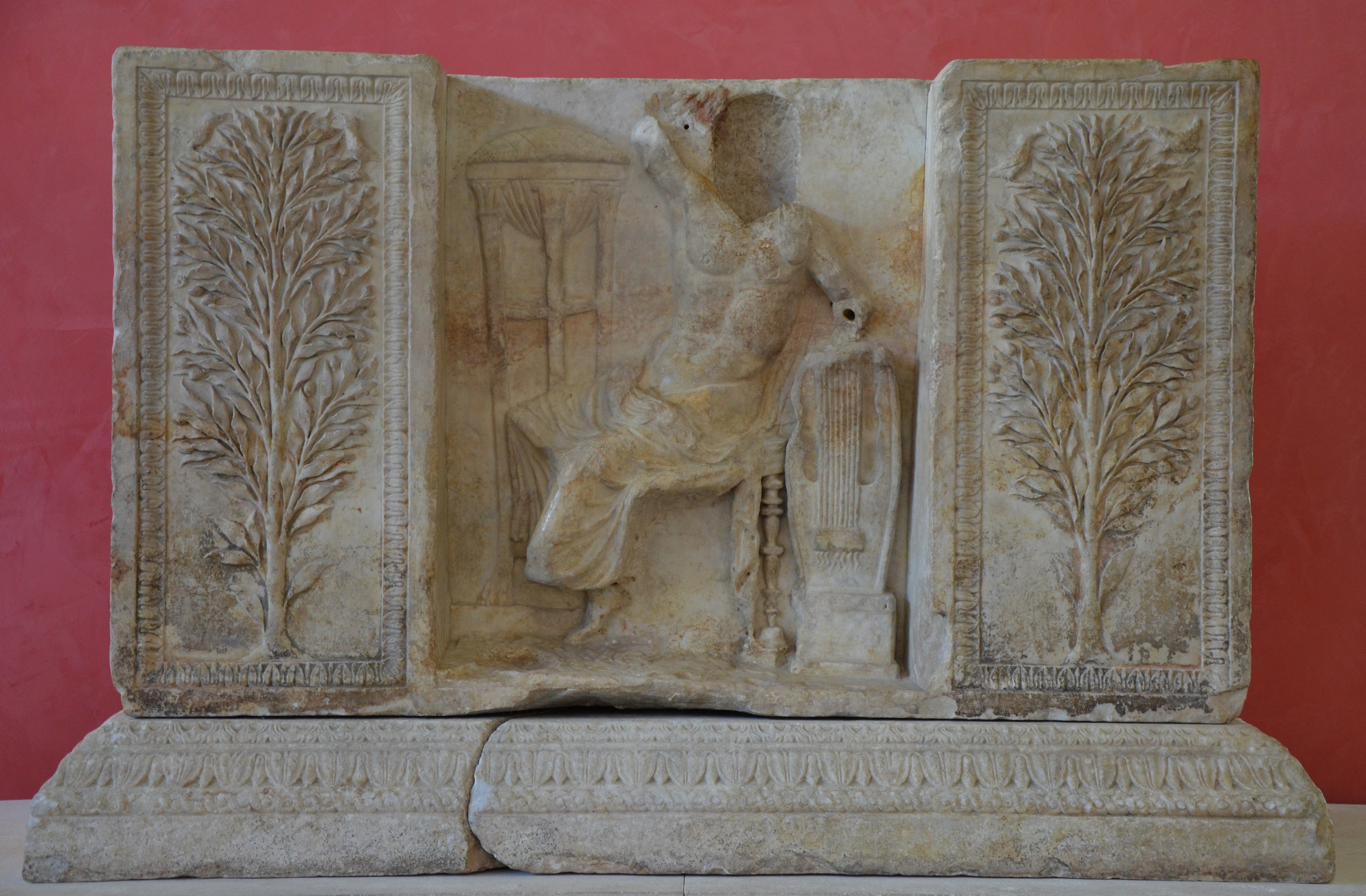 The altar of Apollo (Autel d'Apollon), dated to the late 1st century BC and found in 1823 in the Roman theatre of Arles, Musée de l'Arles antique